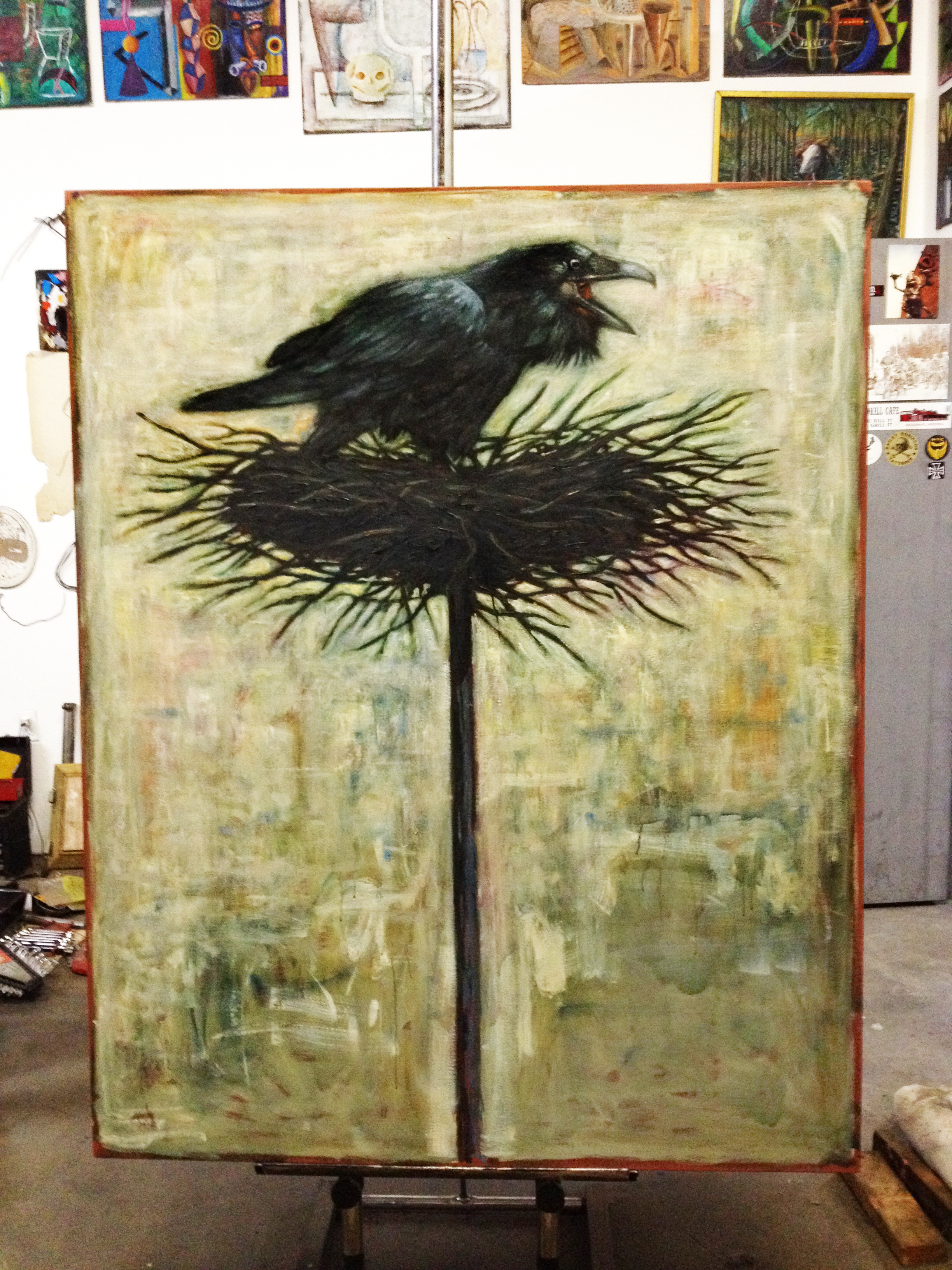 Work in progress (raven painting) in Ray Abeyta's studio as he left it in December 2014.